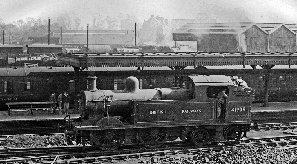 Watford Junction: the St Albans branch platform and the branch engine. View eastward: ex-London & North Western; St Albans (Abbey) is to the left, the West Coast Main line off to the right. The locomotive is Stanier 2P 0-4-4T No. 41909, fitted for push-and-pull working.